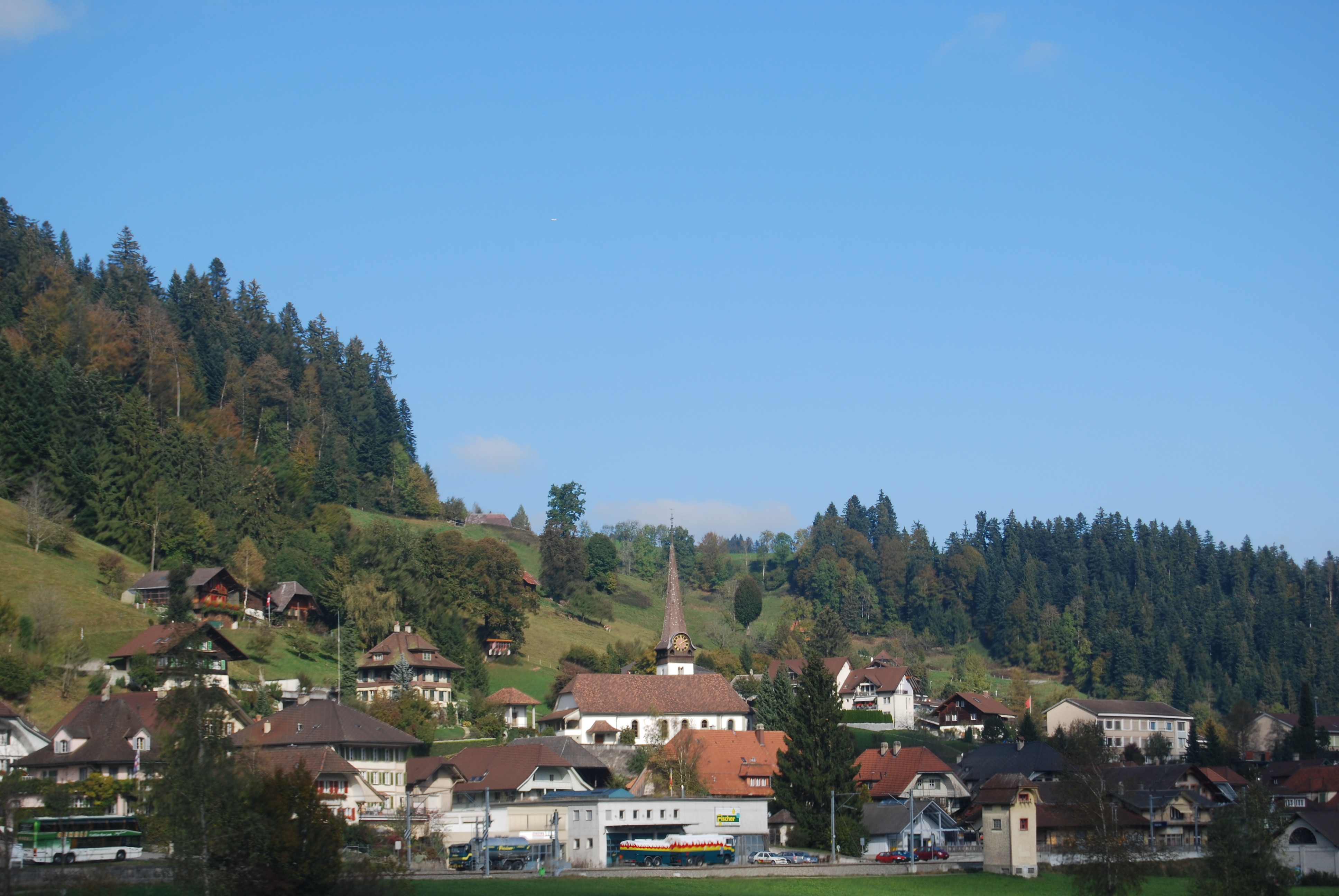 Signau, canton of Bern, SwitzerlandEsperanto: Signau, Kantono Berno, Svislando